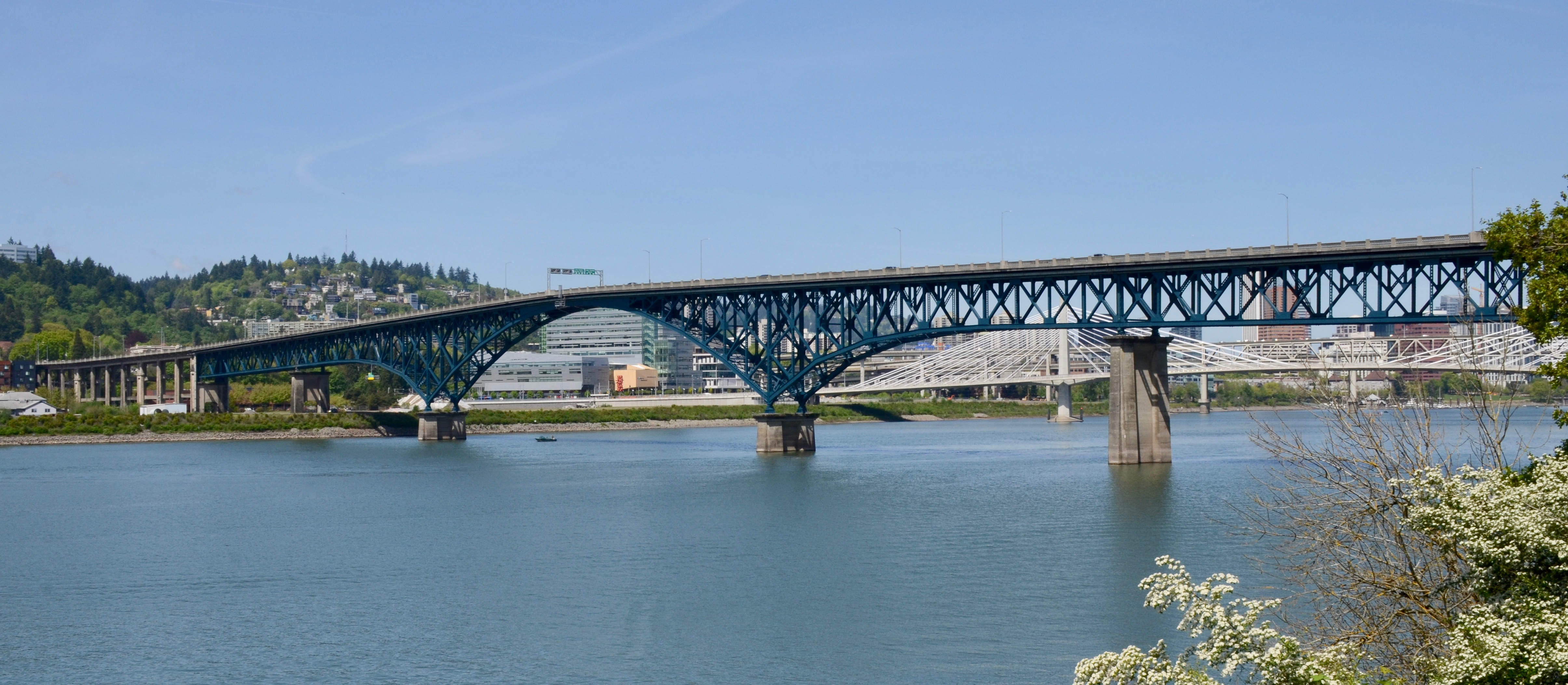 The Ross Island Bridge (in Portland, Oregon) from the south-southeast, from near the Springwater Corridor Trail, in May 2019. This was shortly after the completion of a full repainting of the 1926-built bridge, the first since 1965, when it first received this blue color (replacing green, which had replaced black a decade earlier). The repainting project ran from 2014 to early 2019, including preparation work. Visible in the righthand background is the 2015-opened Tilikum Crossing, the next bridge downstream of the Ross Island Bridge.